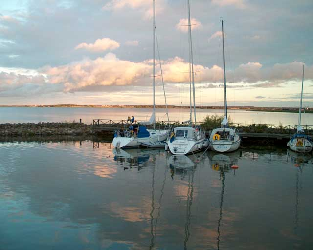 Boats scene from Gota Kanal, Sweden - copyright waived by the author for use on Wikipedia. This image was taken at sunset at the canal entrance to Lake Roxen on the Gota Kanal, where the vessels that operate for tourists stop overnight.